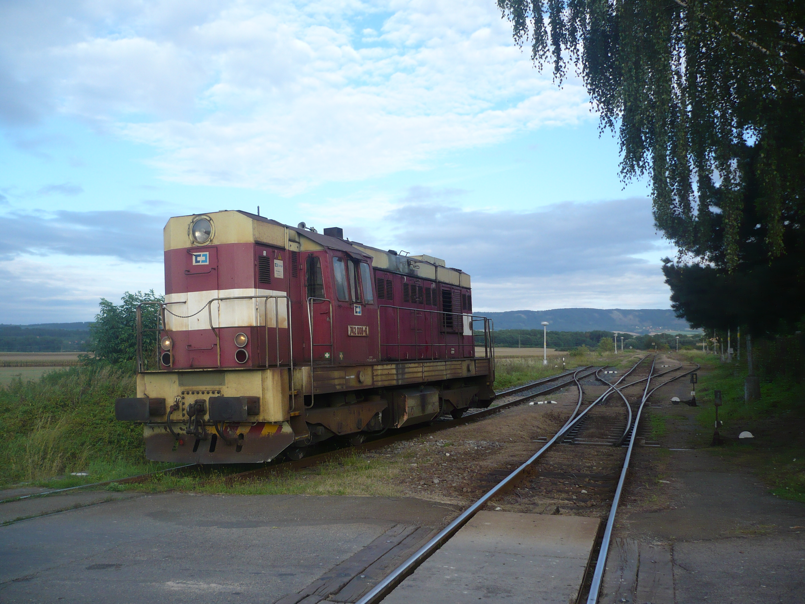 742 008 6 of ČD Cargo leaving Skovice